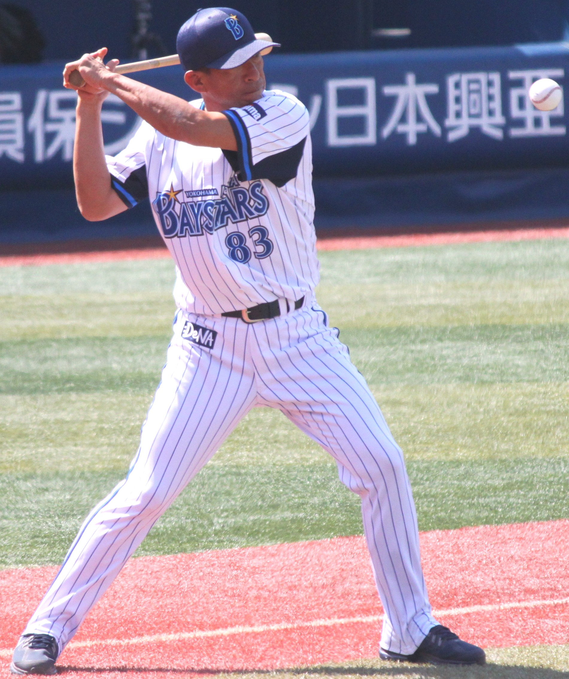 Toshifumi Baba, coach of the Yokohama DeNA BayStars, at Yokohama Stadium.